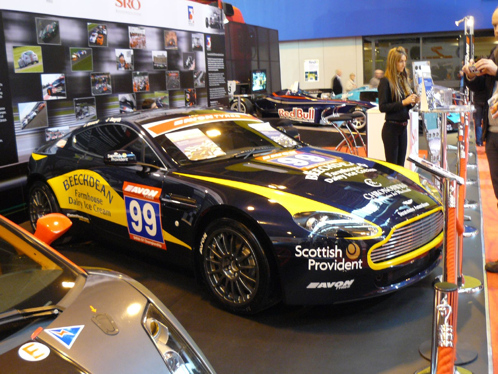 Beechdeans Aston Martin V8 Vantage N24 for the British GT Championship.